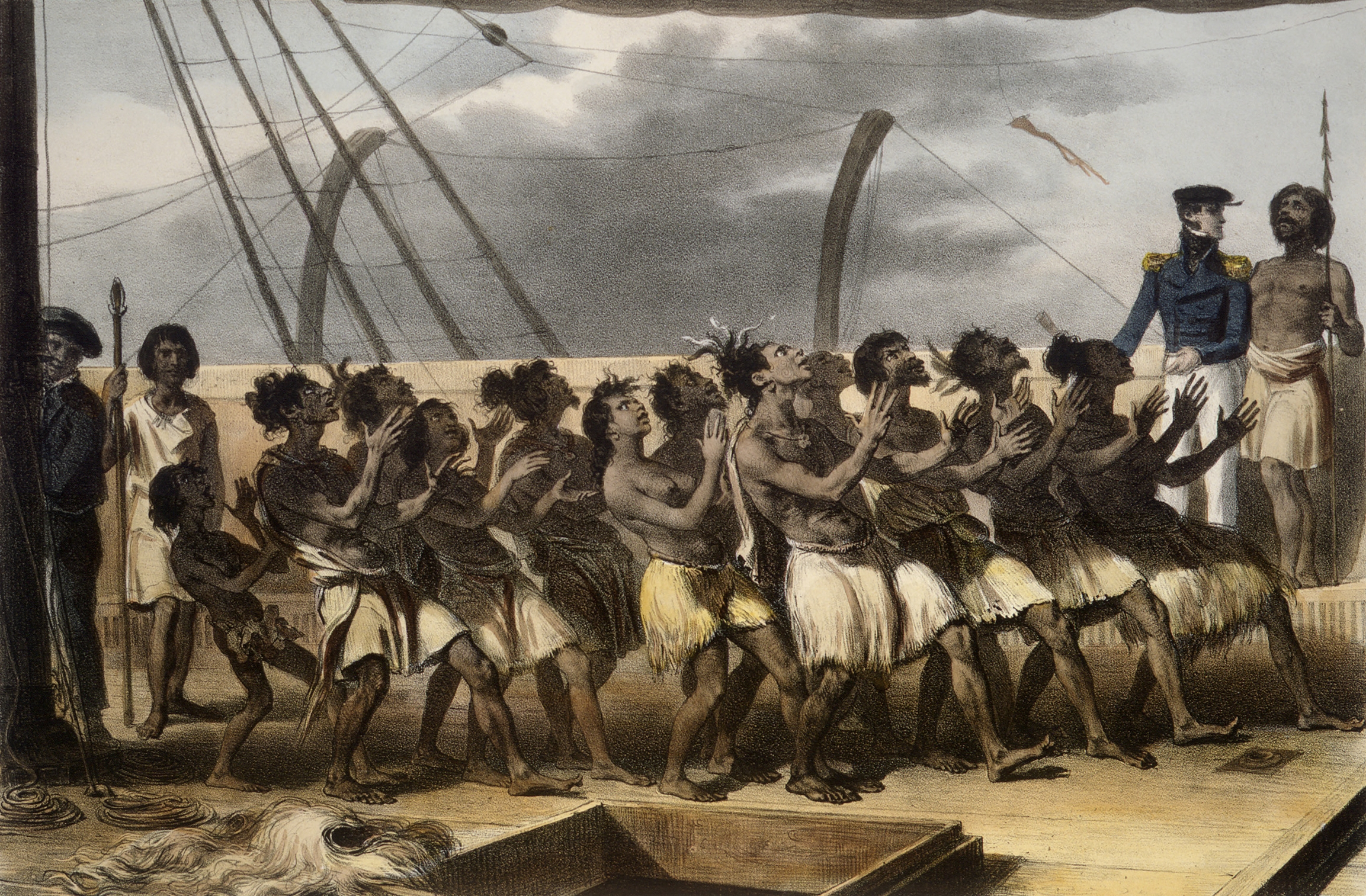 Māori men and women on board the Astrolabe performing a dance, with a French officer at right. The scene was recorded in Tolaga Bay in the Gisborne Region of New Zealand's North Island. Lithograph (hand-coloured) ; 219 x 333 mm (image), 283 x 368 mm (plate mark), 329 x 509 mm (sheet). Cropped from original (see "File history" below).